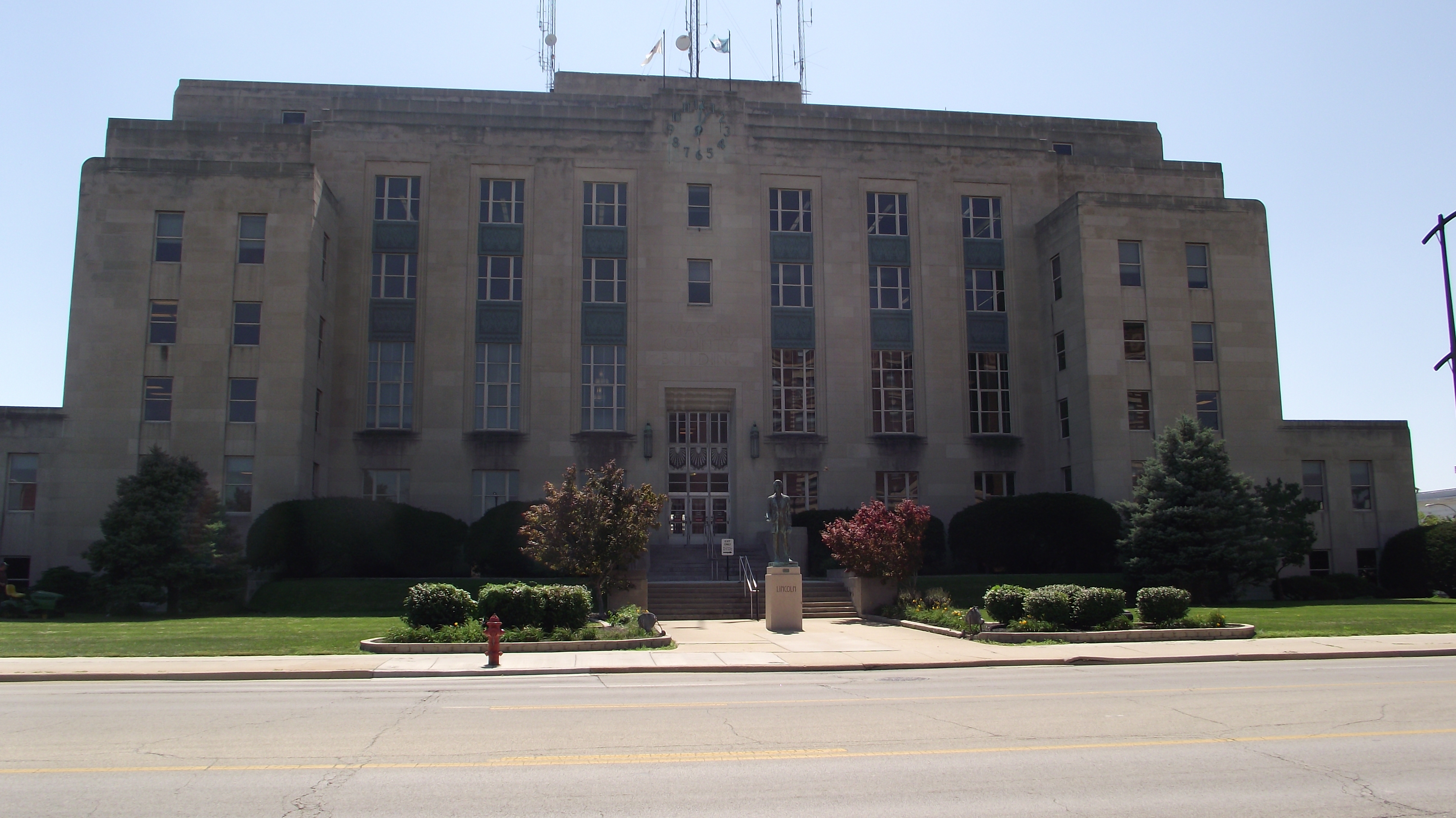 The Macon County Courthouse on East Wood Street, Decatur, Illinois.